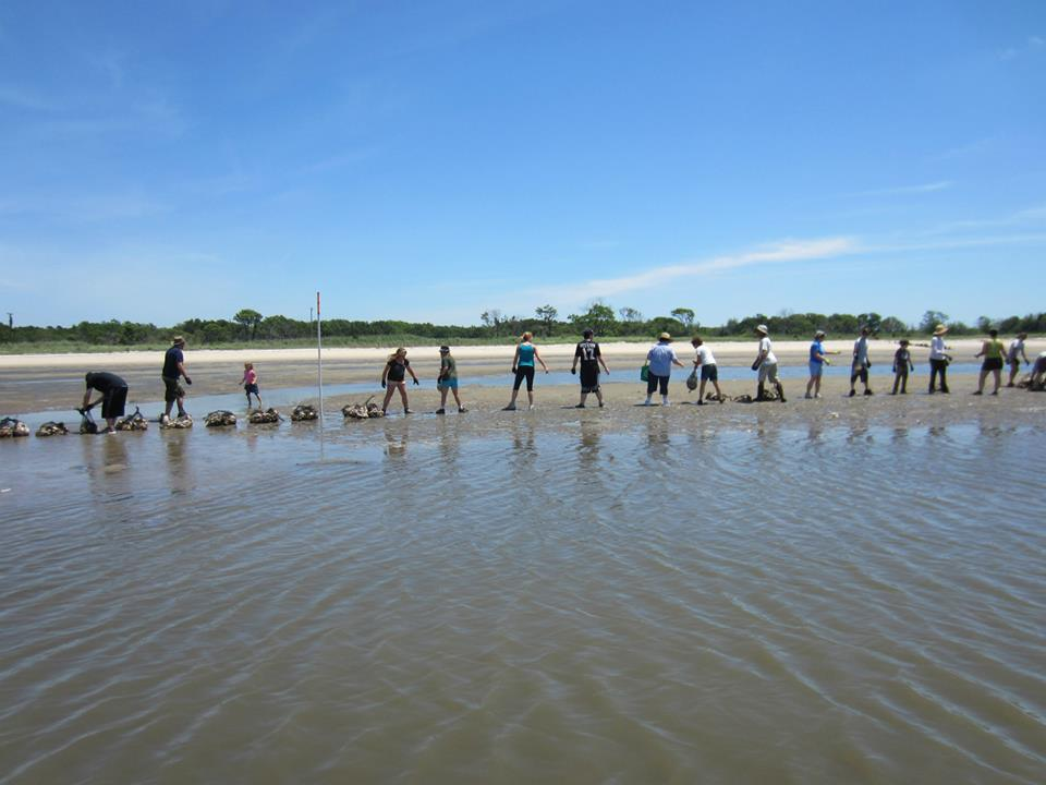 Volunteers form a bucket brigade to move bags more efficiently across the beach. Heavy lifting! As part of the larger Hurricane Sandy resilience Project "Gandy's Beach shoreline protection", the Service partnered with The Nature Conservancy and Project PORTS to engage several thousand students to build 15,000 shell bags. The bags will be placed offshore at Gandy's Beach to become a living oyster reef, part of the 4,000 feet of living shoreline and breakwater to restore 337 acres of salt marsh and adjacent uplands. This project will substantially improve the ability of the site to withstand storm surges and coastal erosion. Credit: Project PORTS staff Like us on Facebook: Follow us on Twitter